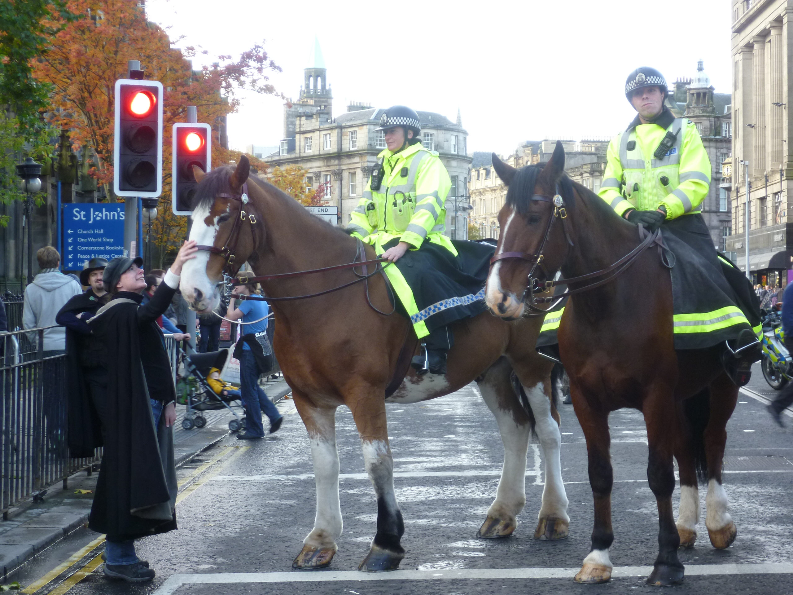 Mounted police deployed during an STUC-organised protest against government spending cuts in October 2010.